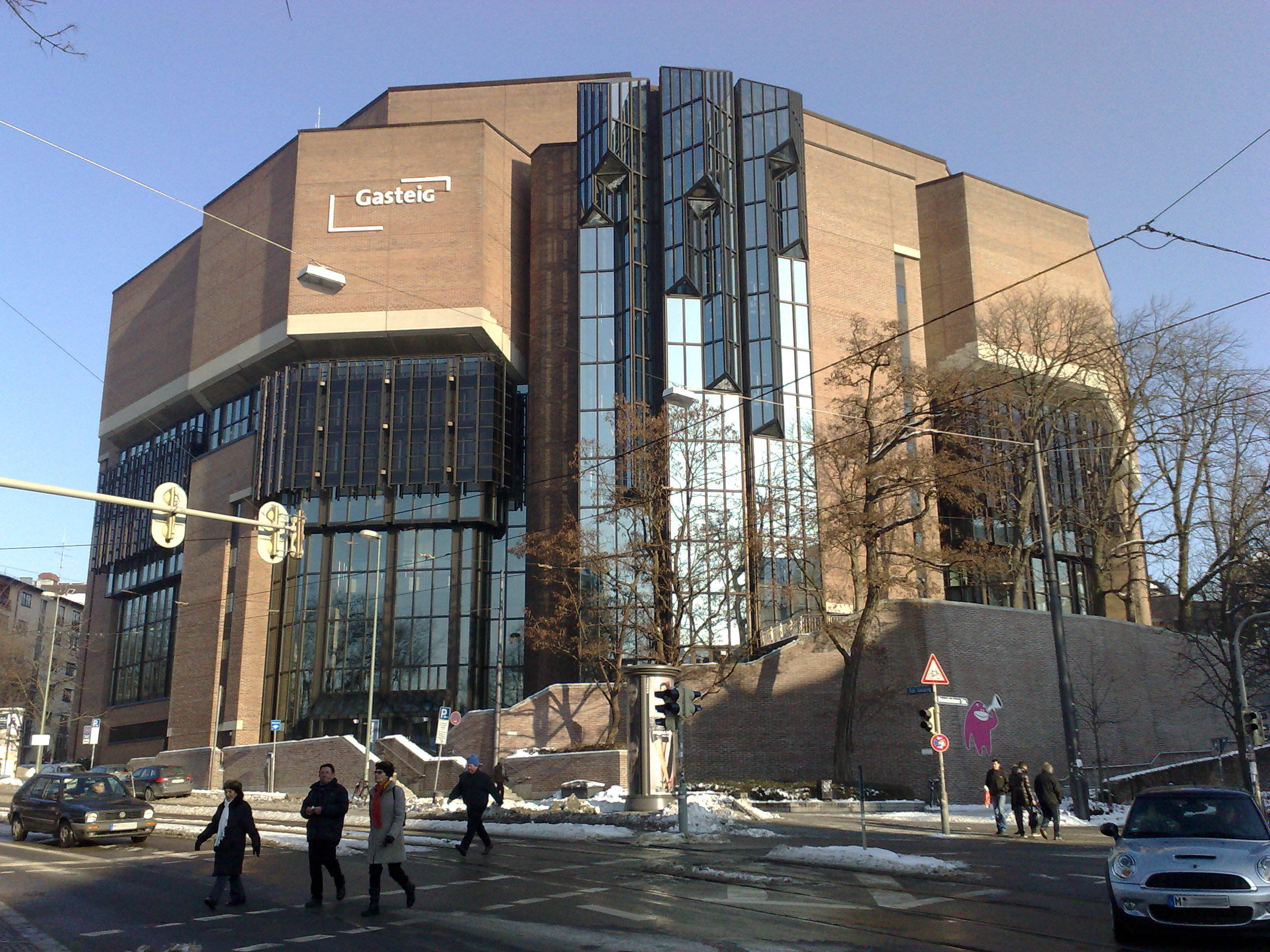 Gasteig, Munich. Year 2010